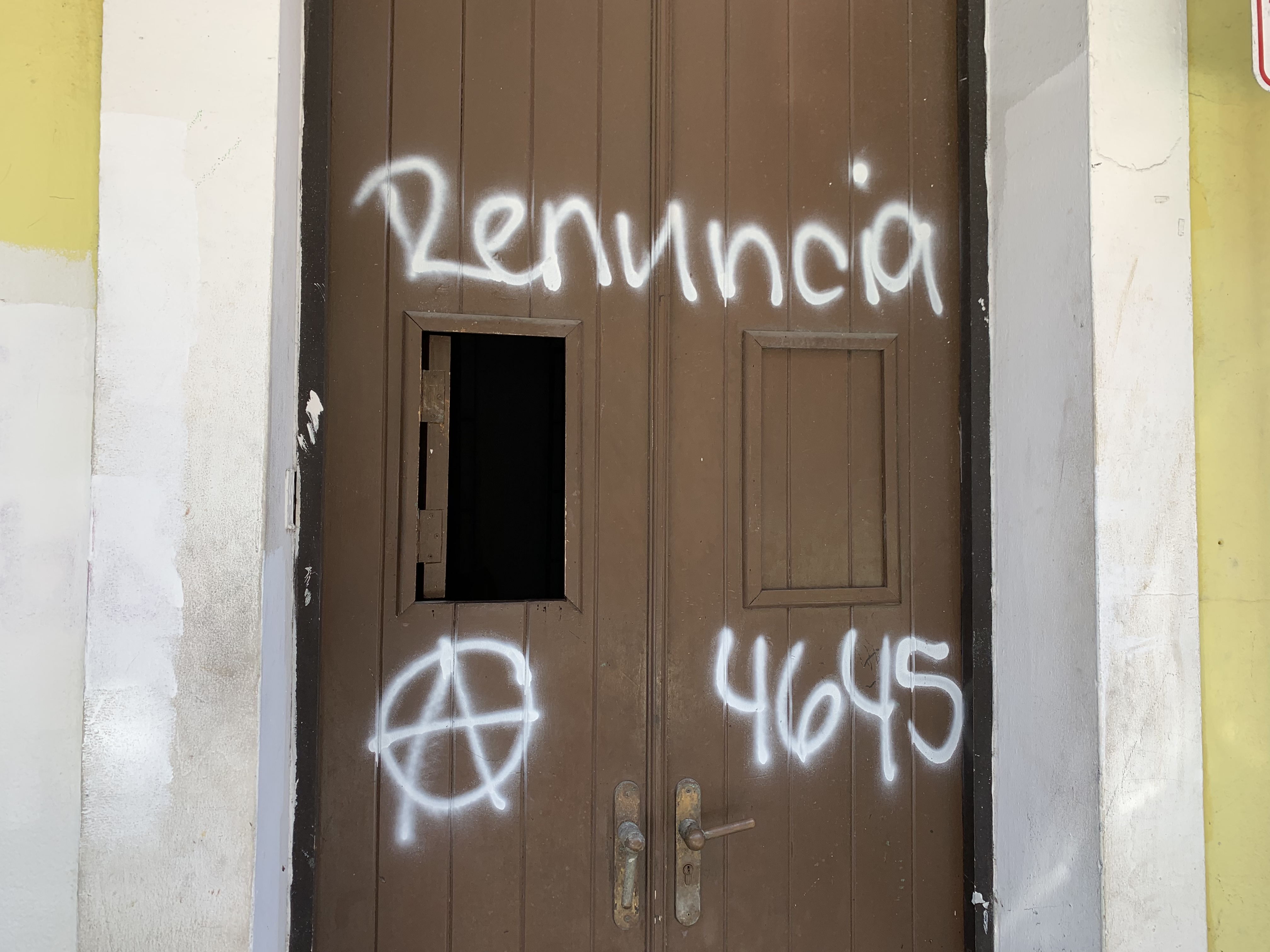 Graffiti painted during protests of the 2019 Puerto Rico leadership crisis. The circle-A is seen along demands for Ricardo Rosselló’s resignation as governor and the number 4,645 in reference to those that died during the aftermath of hurricane Maria in 2017.